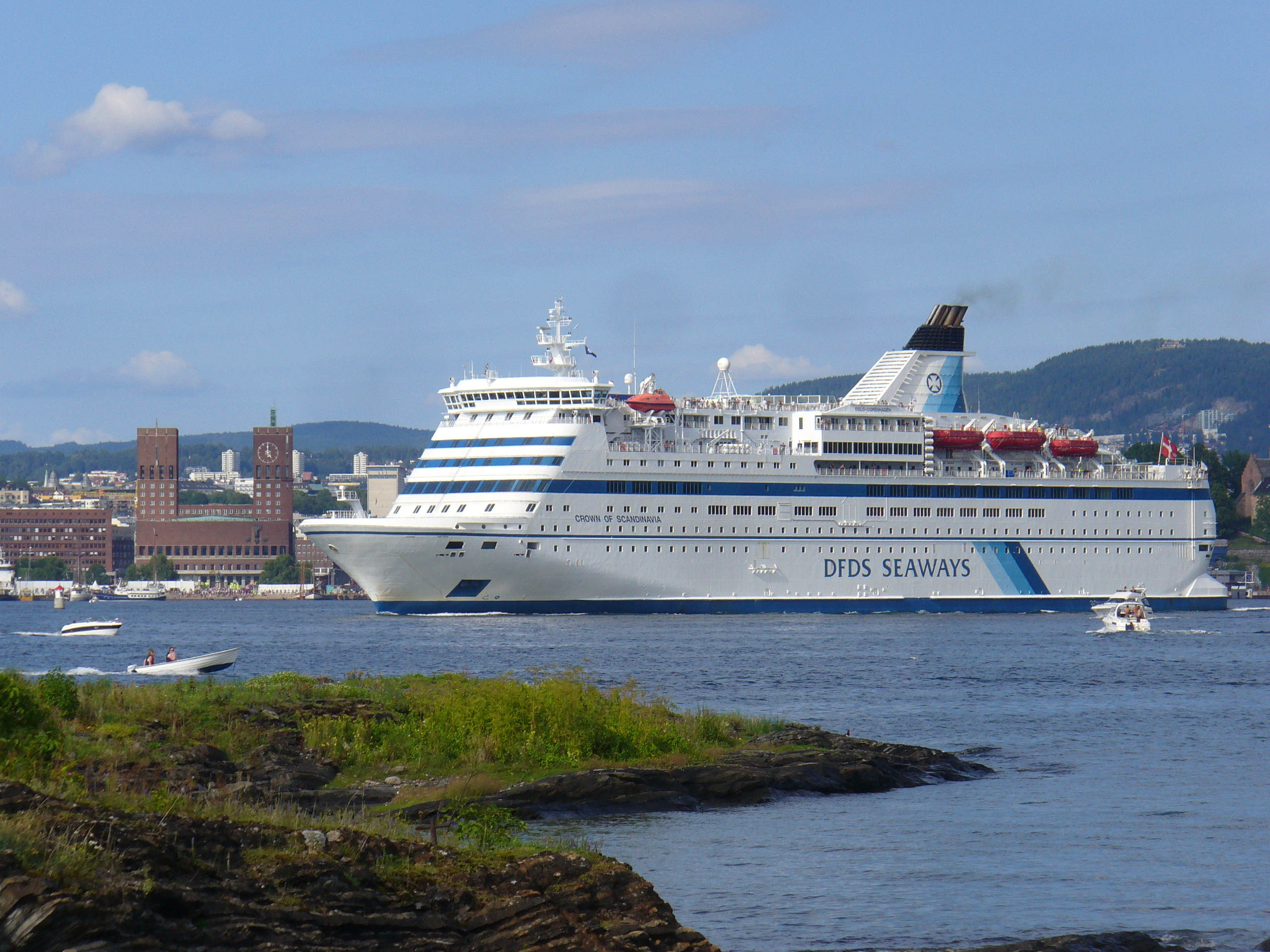 The MS Crown of Scandinavia departing Oslo for the scheduled daily overnight cruise to Copenhagen, with the Oslo City Hall seen in the background. The photo was taken on Heggholmen, an island in the Oslofjord.